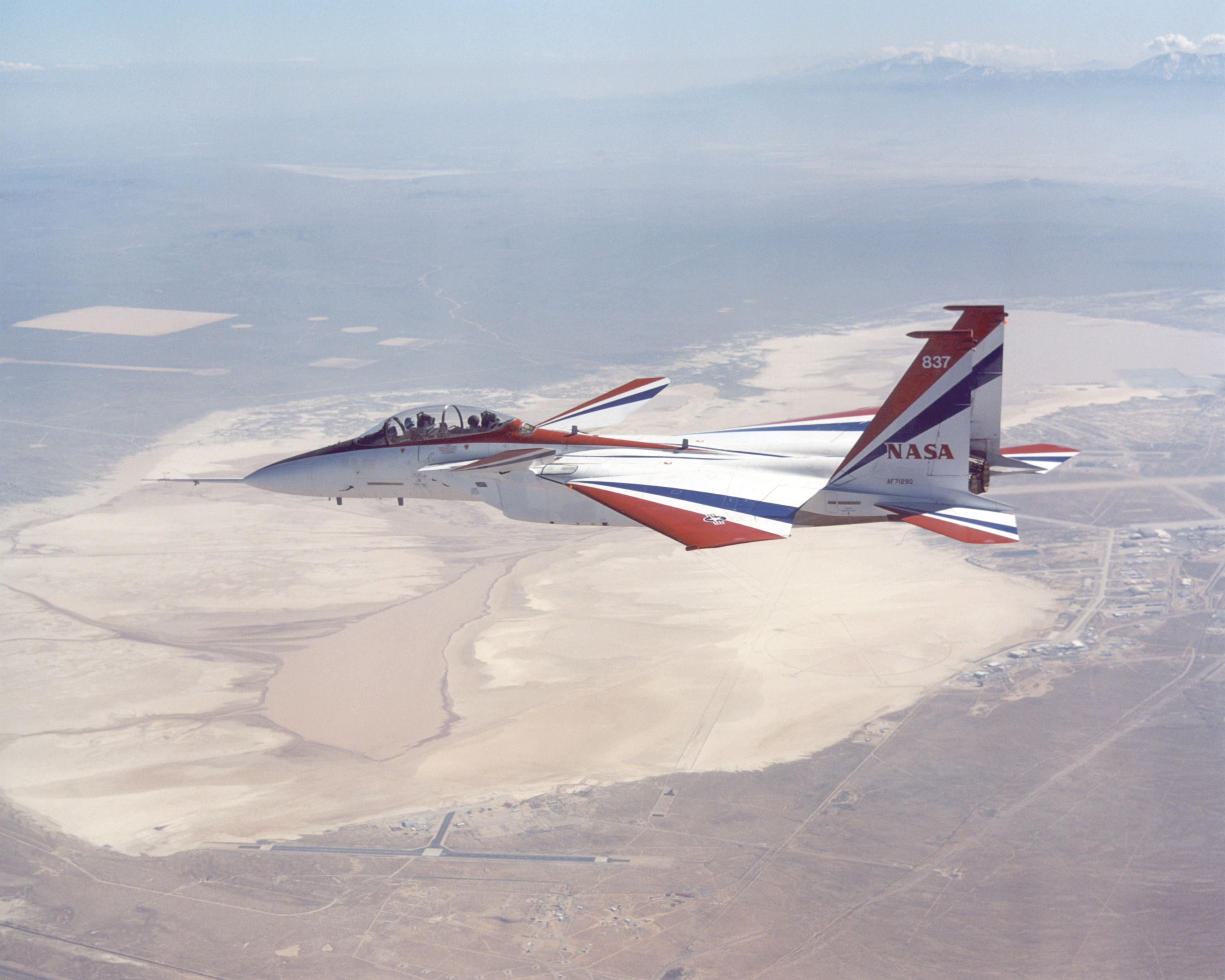 The F-15 IFCS in flight over Edwards Air Force Base. The F-15 IFCS (Integrated Flight Control System) studies development of "self-learning" neural network software for aircraft flight control computers; to aid in the event of battle damage, loss of aircraft control systems, or other uses. Tailnumber 837.